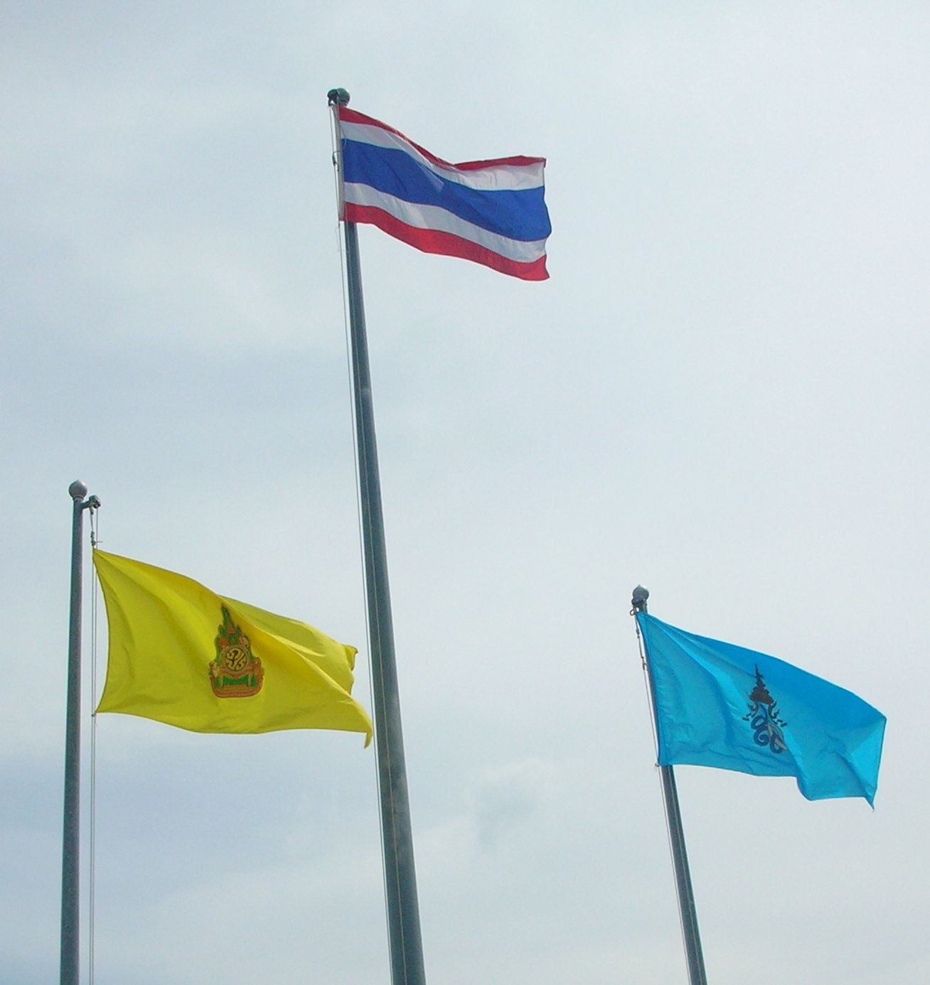 Flags of Thailand